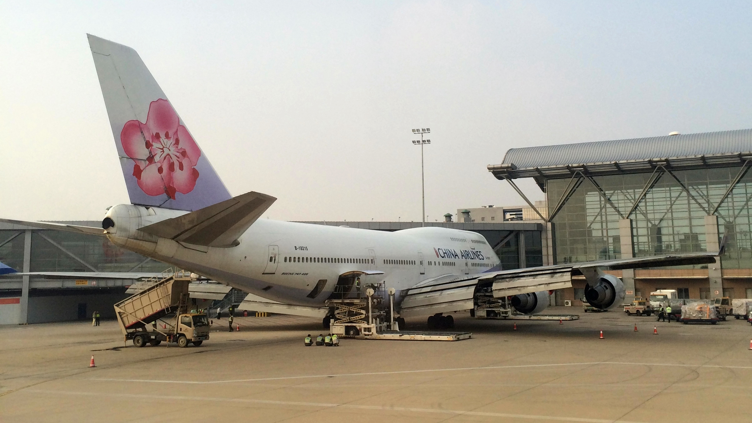 A China Airlines Boeing 747-400 (B-18215) parked at Zhengzhou Xinzheng Intl. Airport (CGO) T1 in Oct 2015